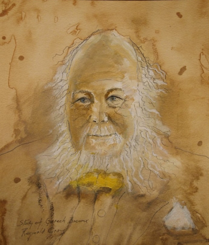 Drawing of Garech Browne (Guinness heir) Egg Tempera and pen on paper